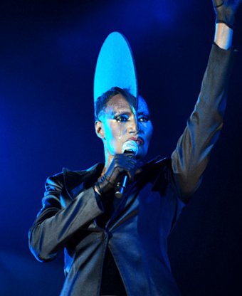 West Coast Blues N Roots Festival 2011